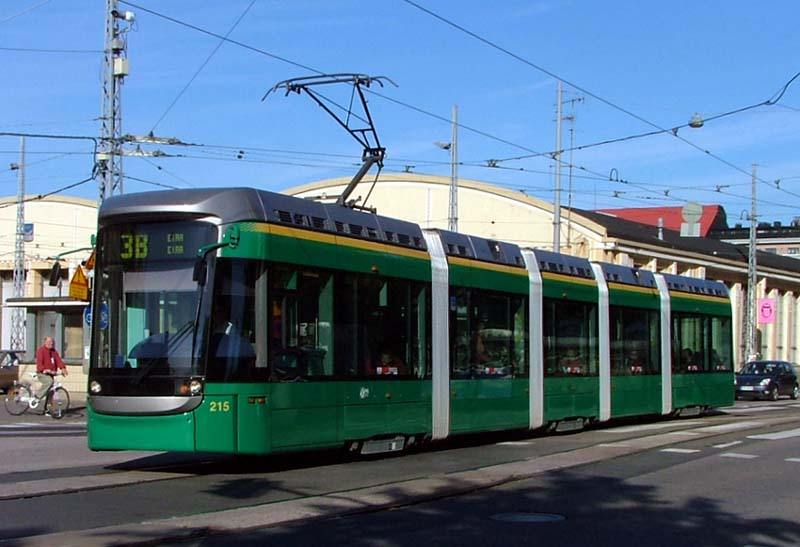 A modern tram in the Töölö district of Helsinki, Finland. This is a Bombardier Variotram; the model was introduced in Helsinki in 1999. Töölö tram depot [1] can be seen in the background.